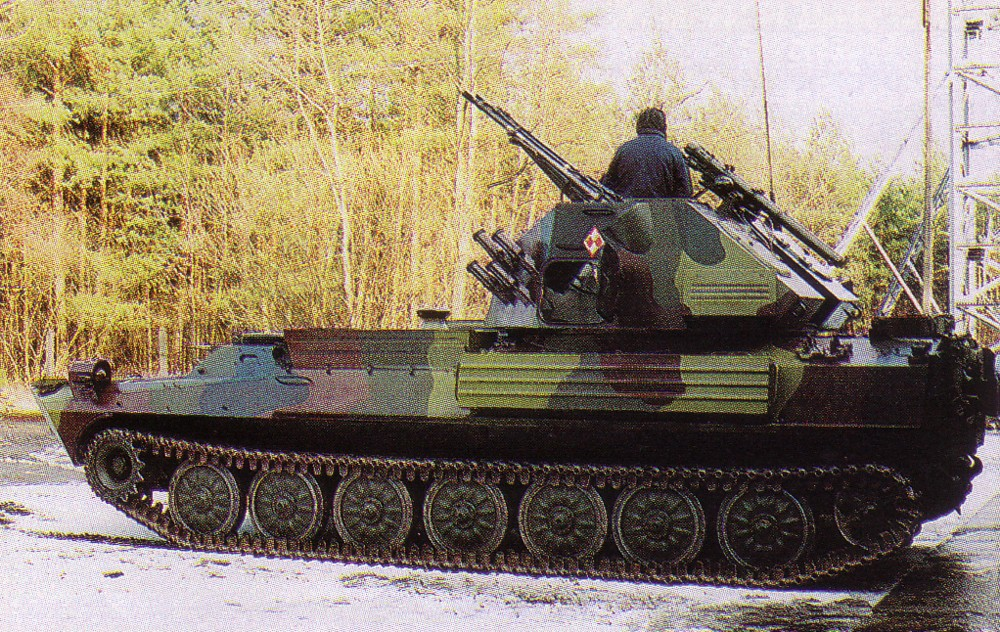 Prototype of Sopel, Polish AA SPG on MT-LB chassis